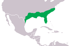 Distribution map of range of Alligator mississipiensis — American alligator.